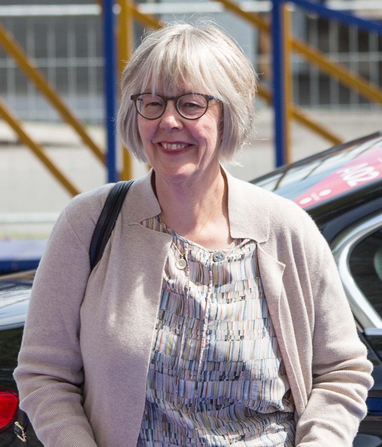 Photo: Aron Urb (EU2017EE)